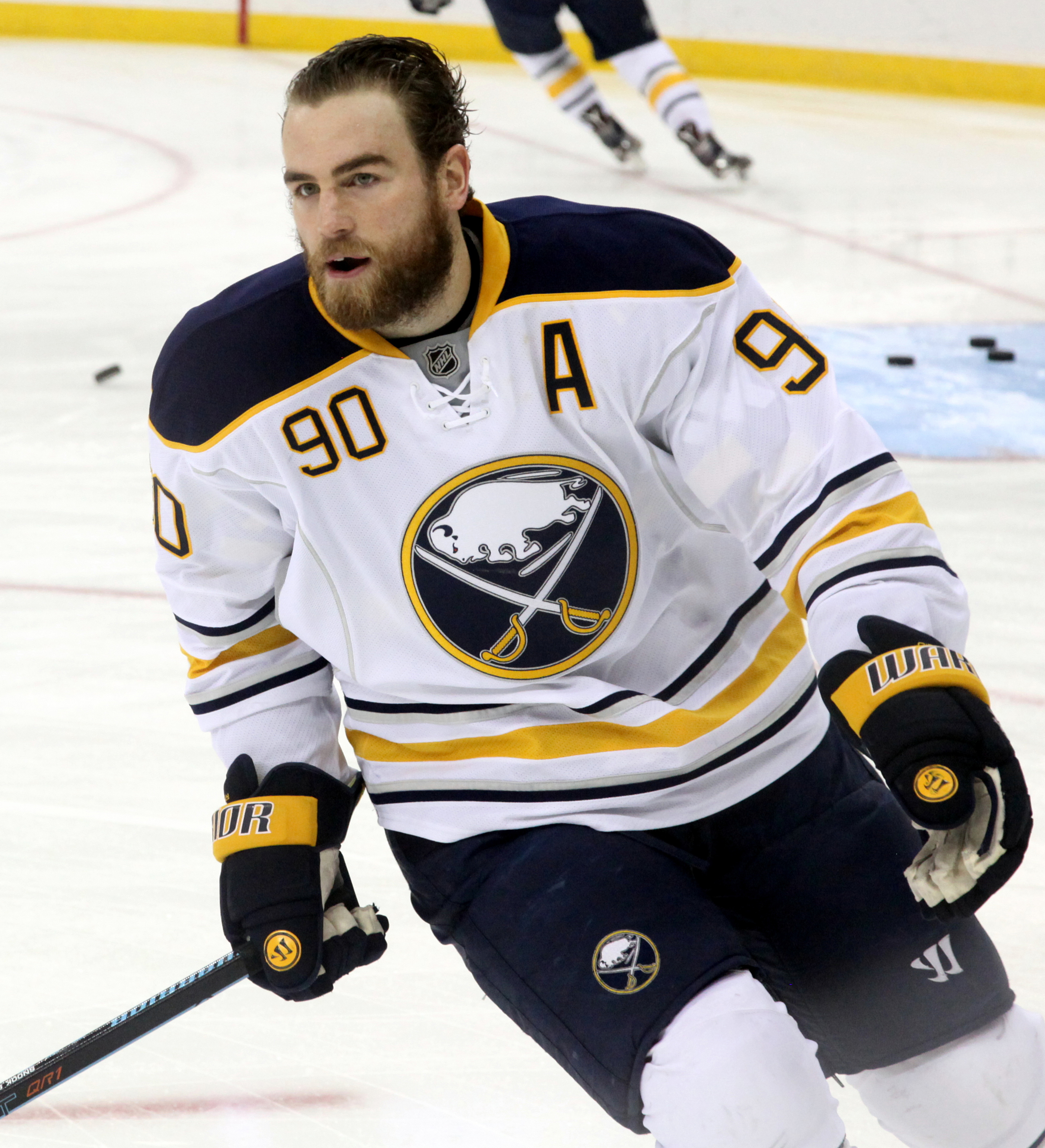 Ryan O'Reilly in April 2016.